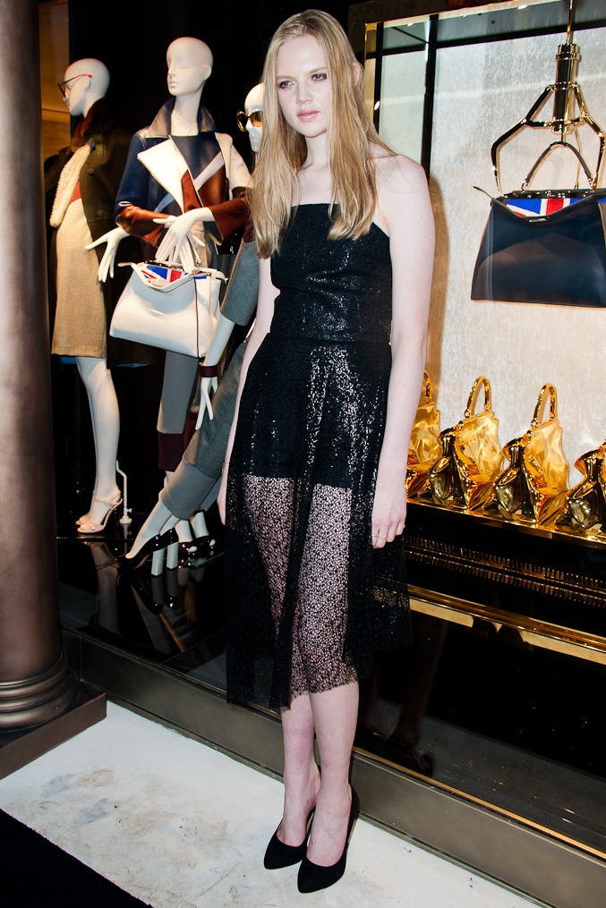 Model Holly Rose Emery at event to mark the opening of new Fendi store in London on May 1, 2014. This image is cropped from the original.